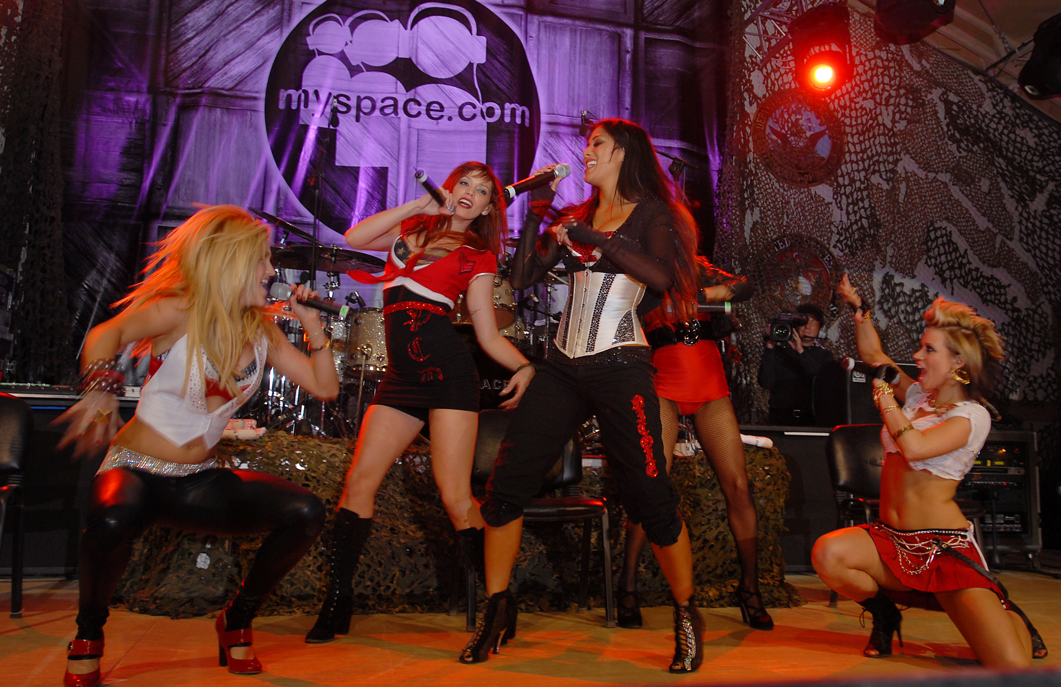 U.S. Marines ride in armored vehicles while conducting an operation in the village of Now Zad in Helmand province, Afghanistan.